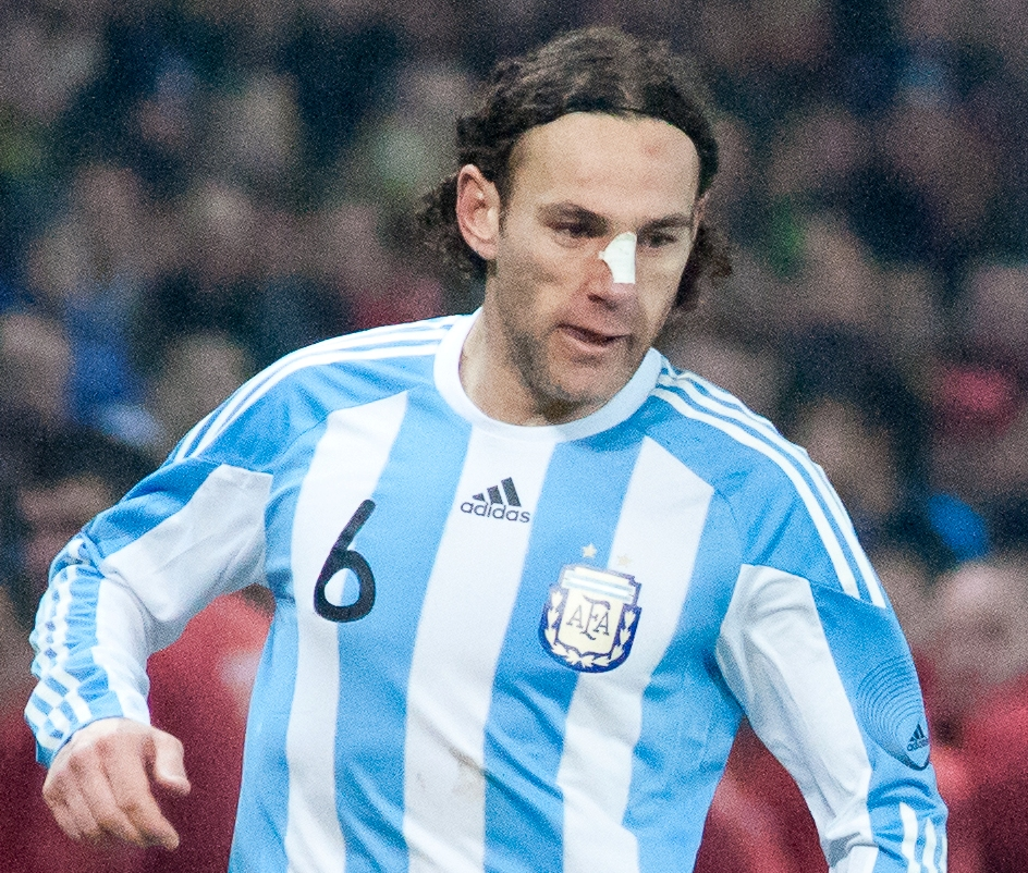 Gabriel Milito